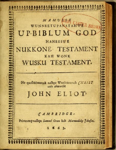 Algonquian Bible 1663